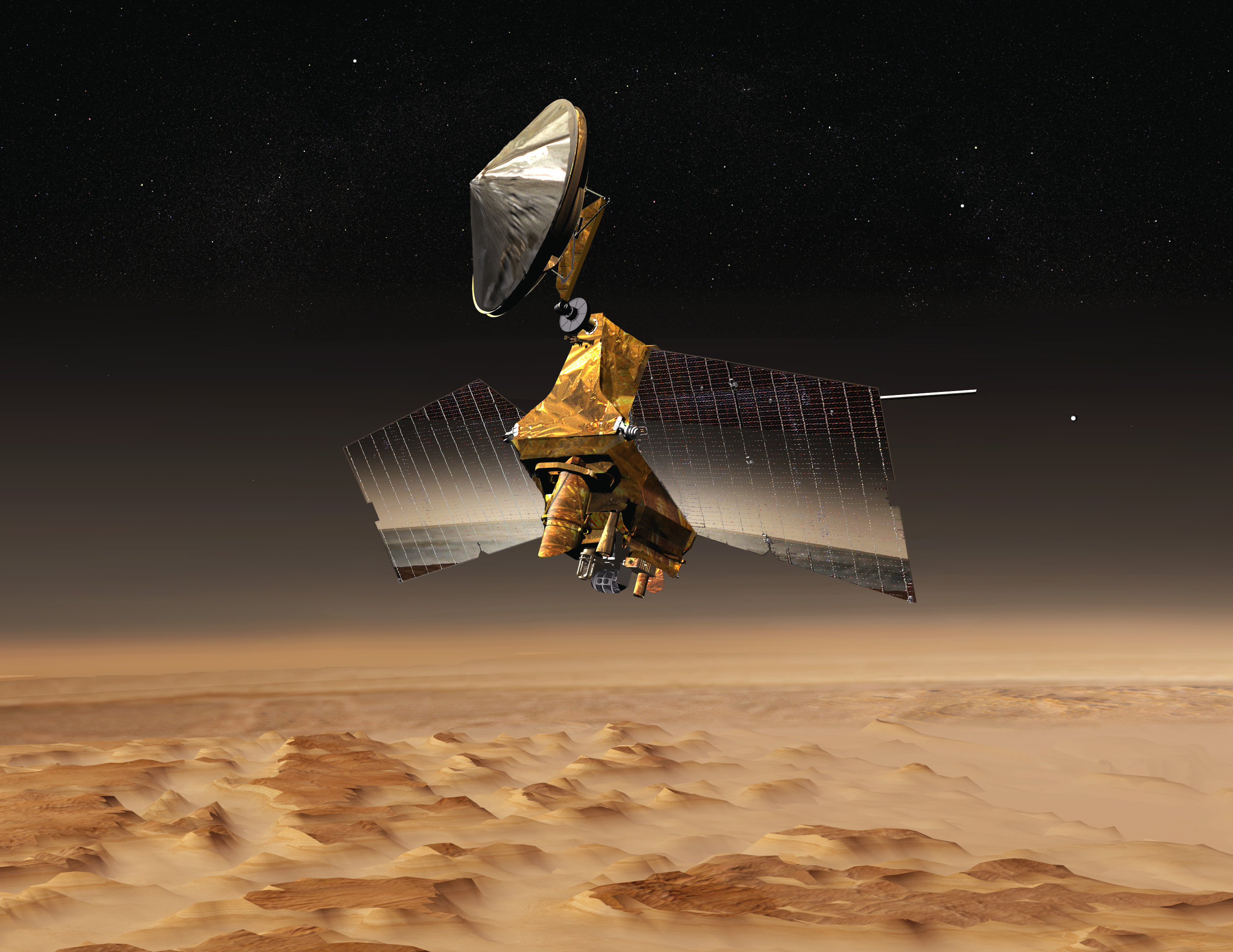 Mars Reconnaissance Orbiter over Nilosyrtis Mensae - NASA's Mars Reconnaissance Orbiter passes above a portion of the planet called Nilosyrtis Mensae in this artist's concept illustration. NASA plans to launch this multipurpose spacecraft in August 2005 to advance our understanding of Mars through detailed observation, to examine potential landing sites for future surface missions and to provide a high-data-rate communications relay for those missions.